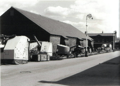 Grand Magazine at Priddy's Hard. Two 4.5 inch naval guns are in the foreground.